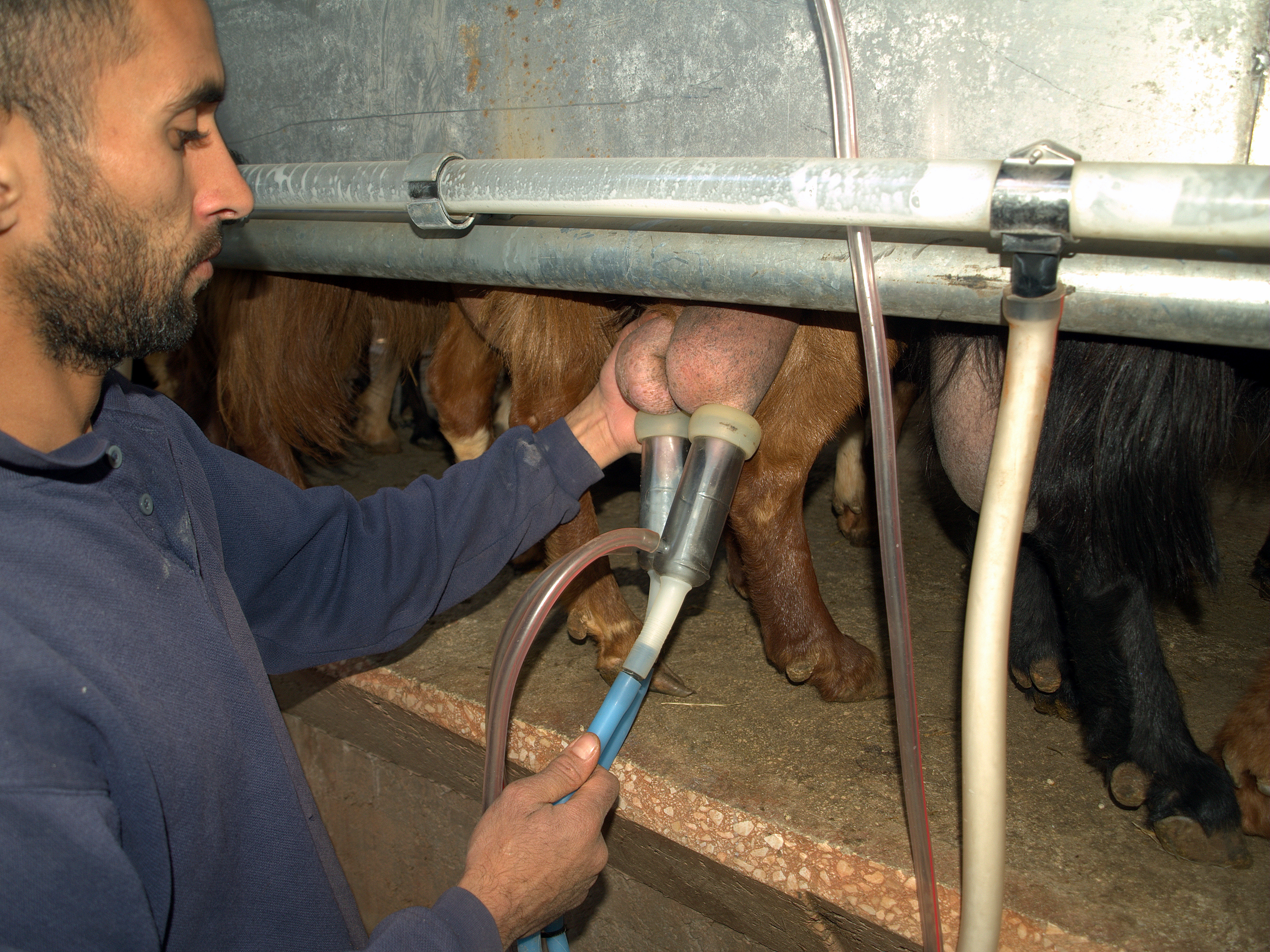 Milking a goat on the organic farm located on the grounds of the homeopathic resort Hotel Mizpe Hayamim in Rosh Pina, Israel.